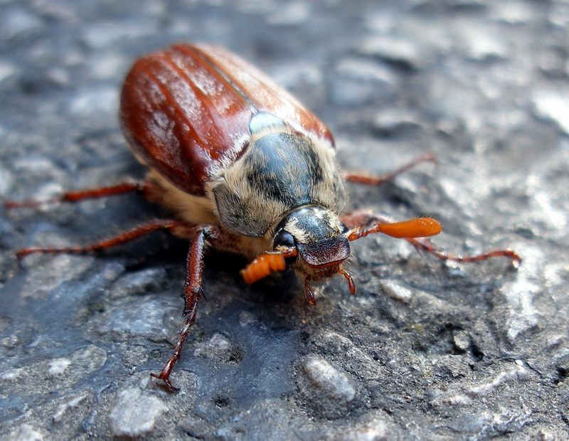 Melolontha melolontha, known as the cockchafer, maybug or ollonborre (in Swedish).